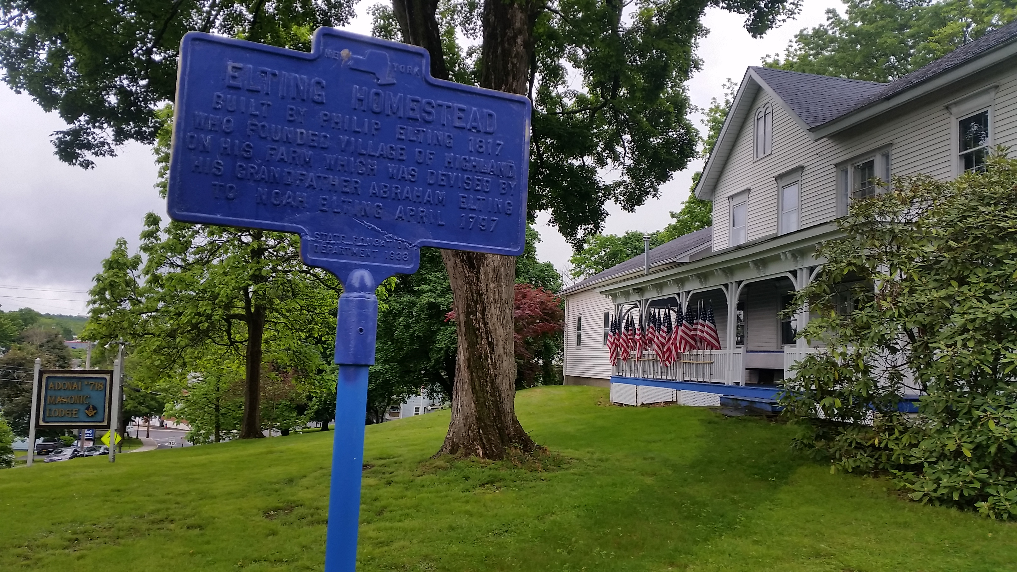 NY State historical marker for the Elting Homestead